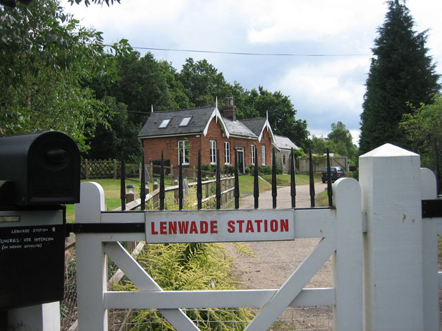 Photo of Lenwade railway station, Norfolk